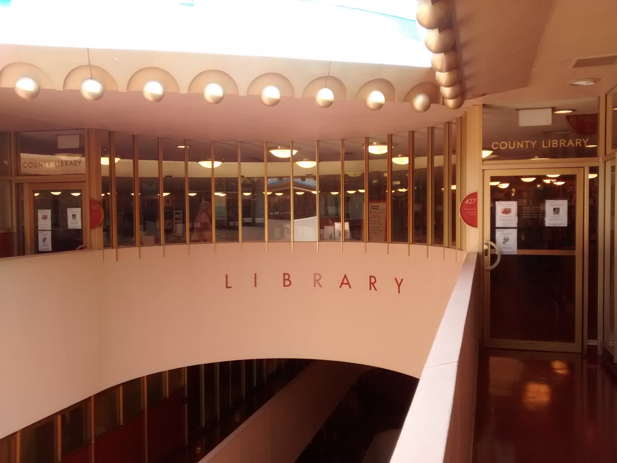 The Civic Center branch of the Marin County Free Library, located on the fourth floor of the Marin County Civic Center.